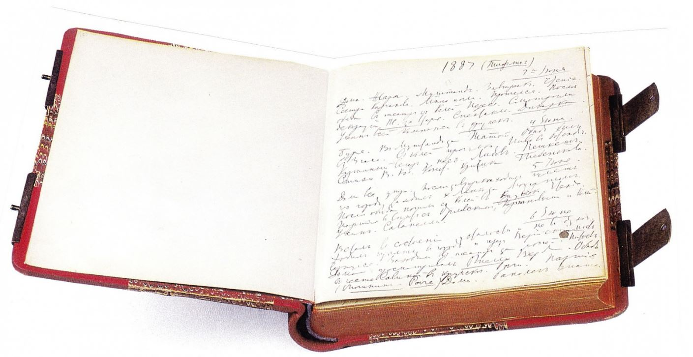 The first page of Tchaikovsky's Diary "No. 6", June 1887, now preserved in the Tchaikovsky House-Museum Archive at Klin